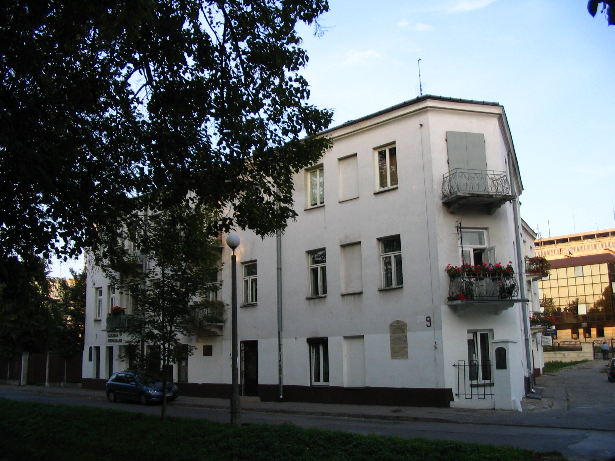 A building at 7 Planty Street, where 40 Jews were massacred in 1946